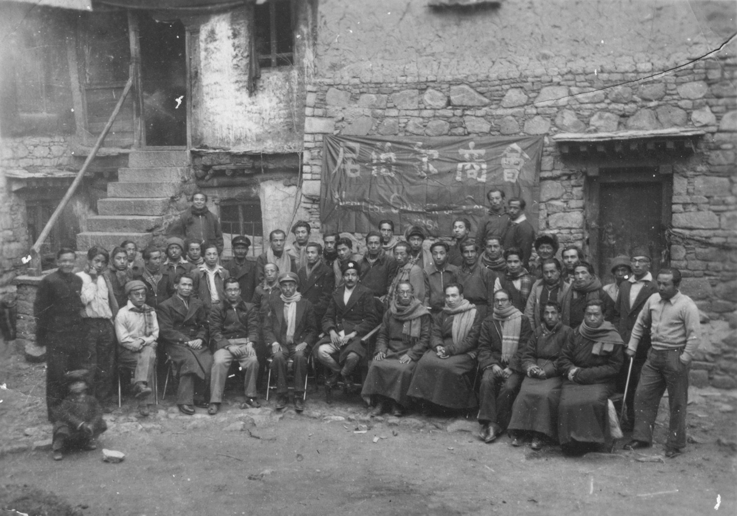 Group photo of members of the Nepalese Chamber of Commerce, Lhasa, Tibet in 1955.